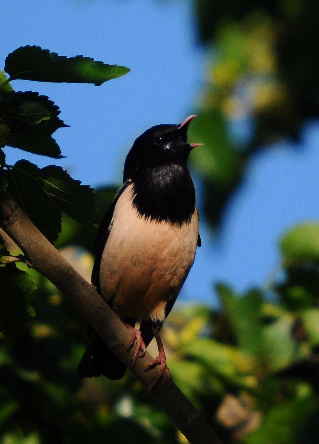 Rosy Starling Pastor roseus, Bismil, Diyarbakır Prov., Turkey Kurdî: Zerzûl Pastor roseus Yan jî Çîqê belek